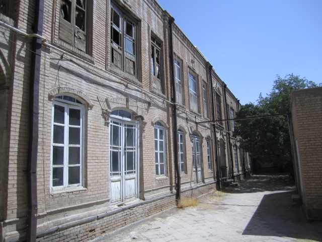 this is a part of arak old bazar